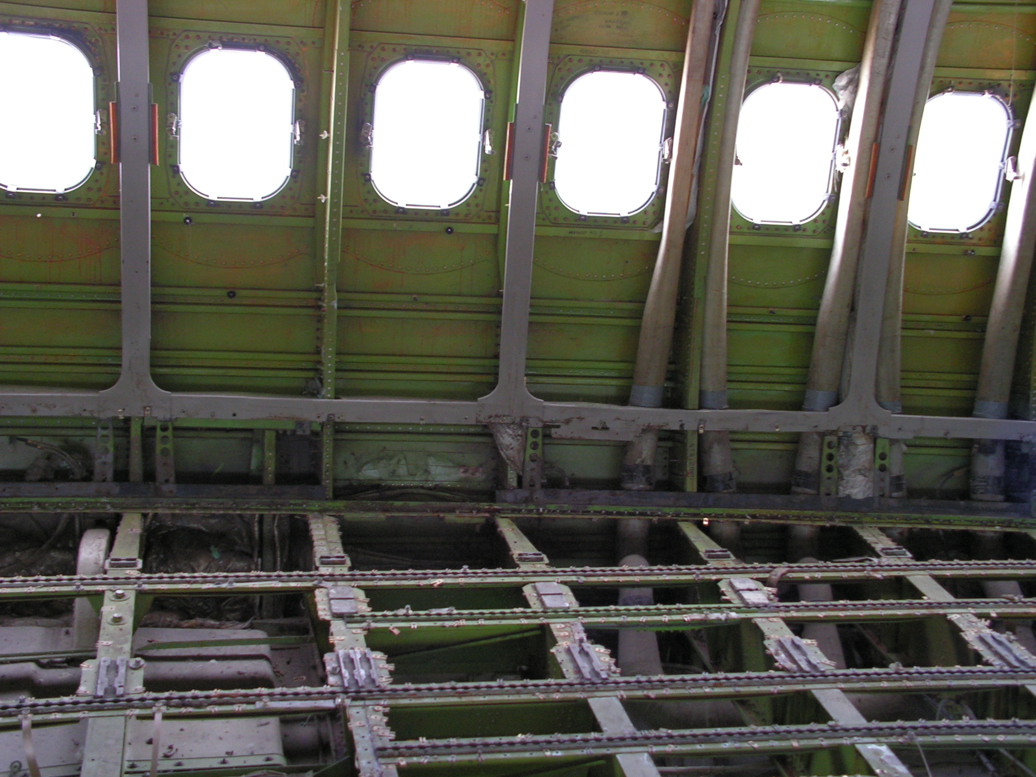 Structure of a 747-230 from the Technik Museum Speyer (Germany)